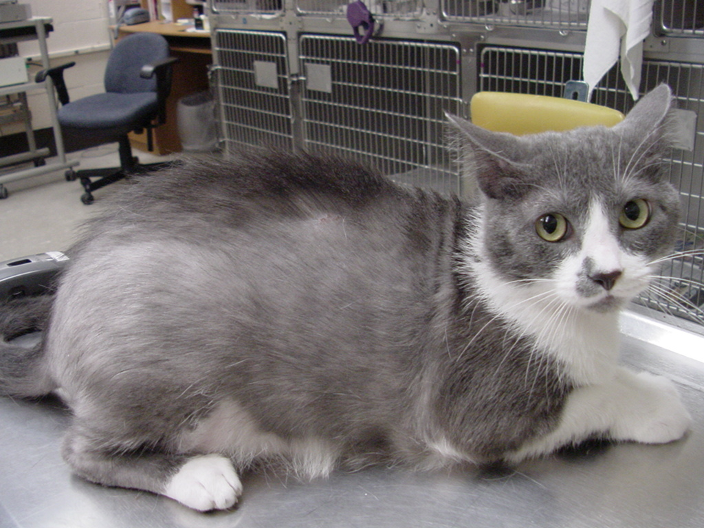 feline self-inflicted alopecia secondary to flea allergy